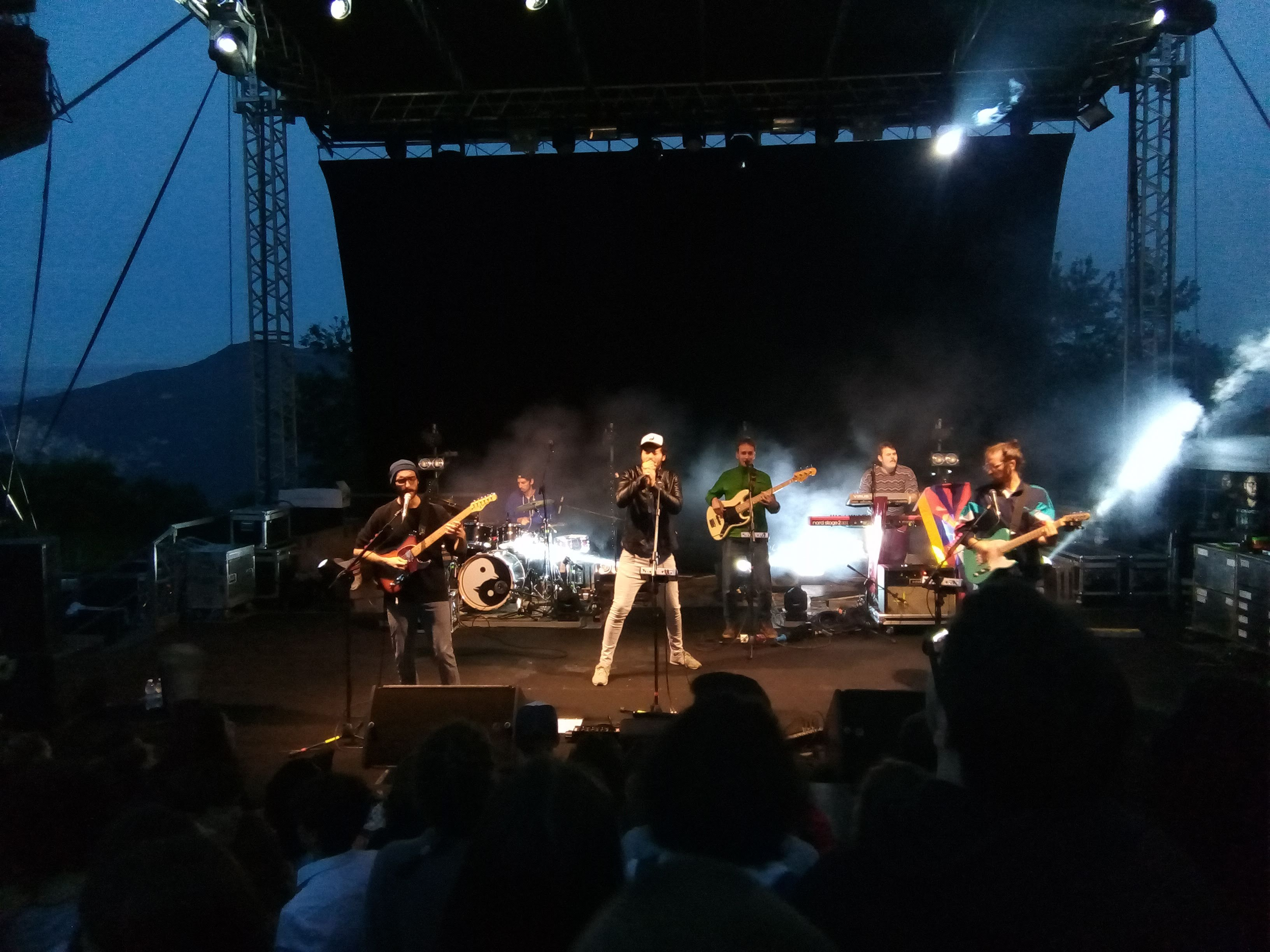 Pinguini Tattici Nucleari at Stif Sound 2019 in Villa Lagarina (province of Trento, Italy)